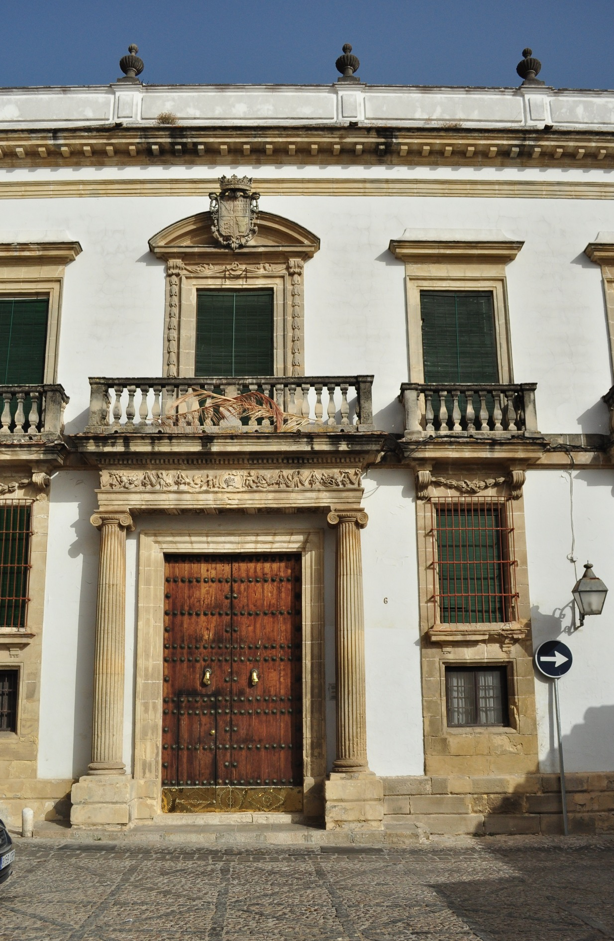 Campo Real Palace, Jerez